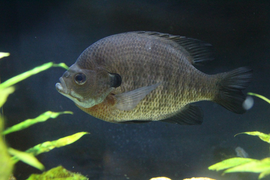 블루길 사진